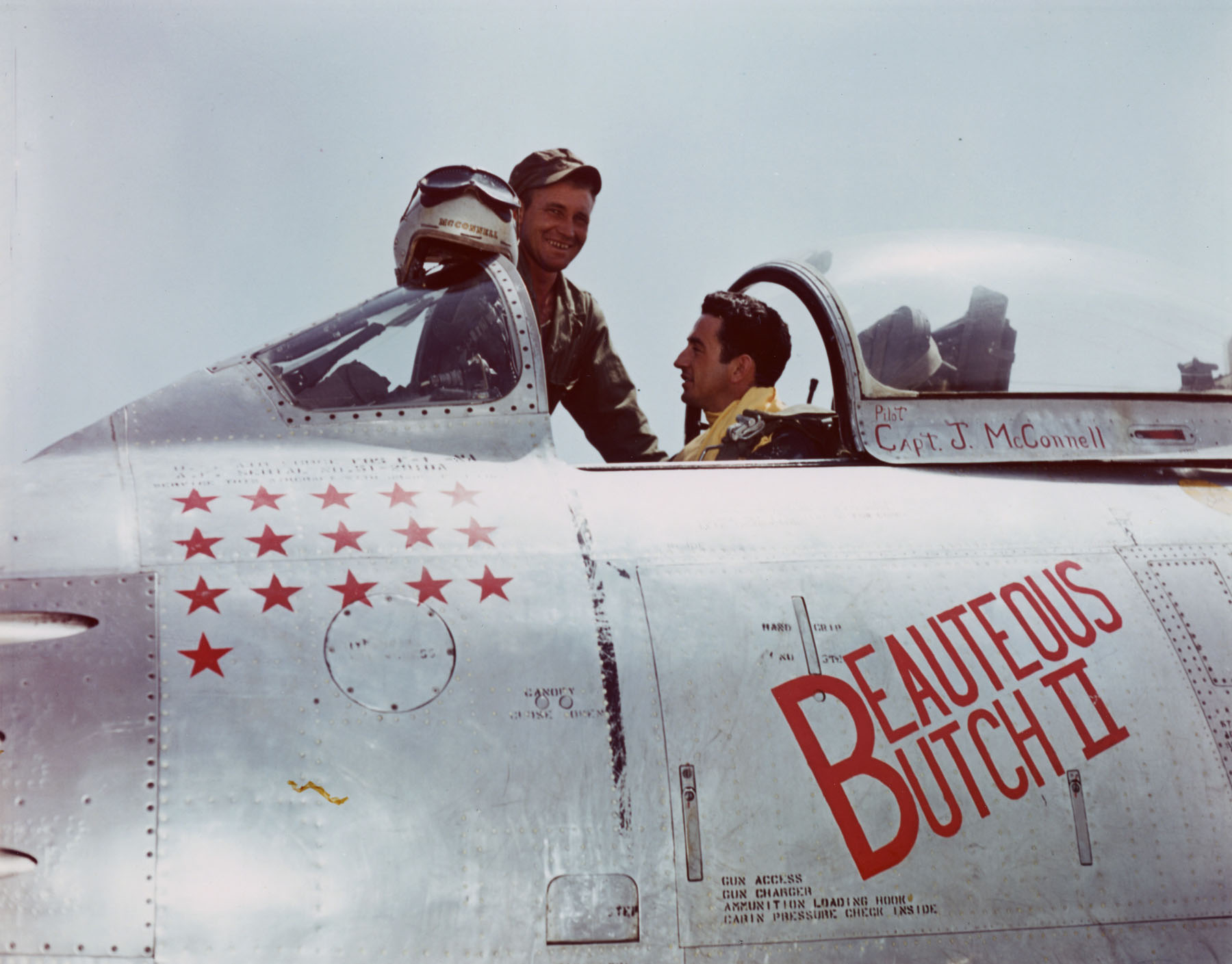 Capt. Joseph C. McConnell, Jr., U.S.'s only triple jet ace, in the cockpit of Beauteous Butch II (F-86F-1-NA, sn 51-2910) with 16 victory stars, during Korean War